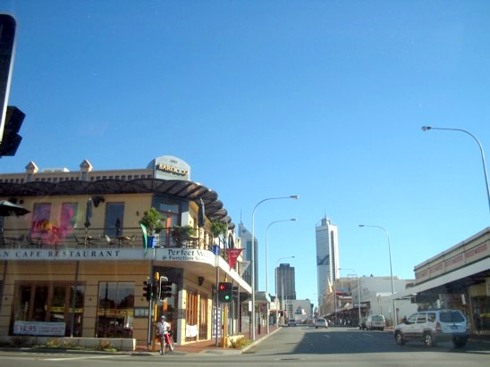 Perth's Chinatown - William Street, Northbridge.